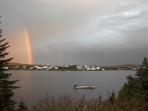 Picture of Mary's Harbour taken from Mission Wharf.